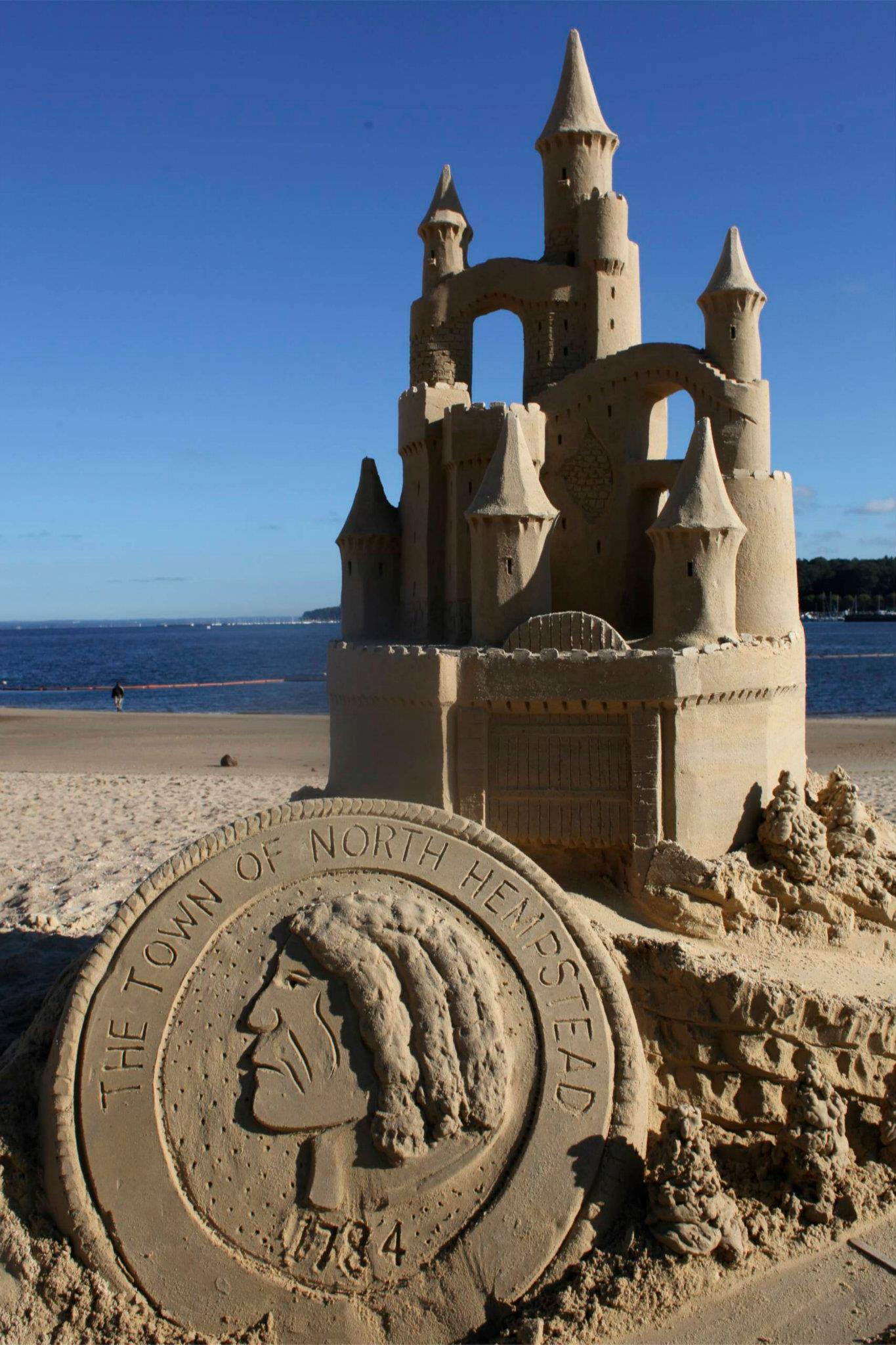 Bar Beach North Hempstead